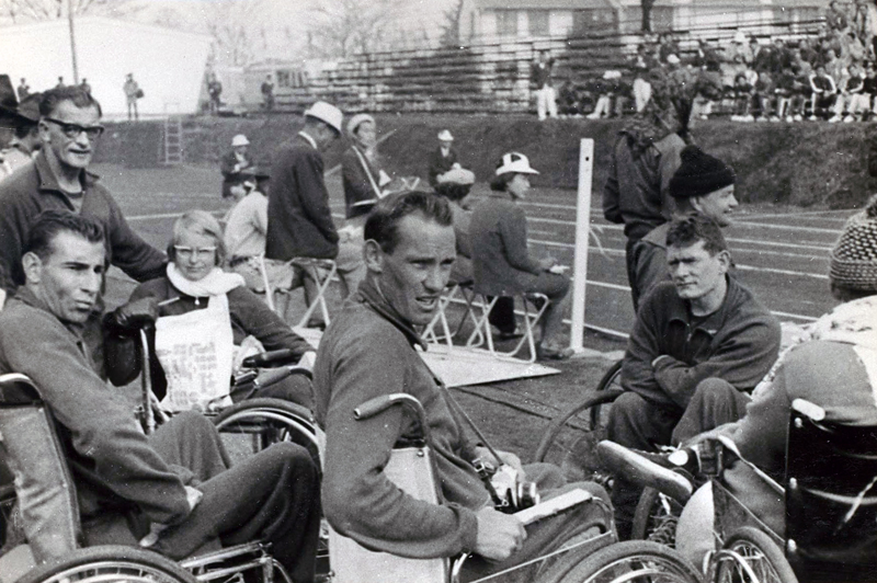 Australian Paralympic Team members in the in-field at the athletics during the 1964 Tokyo Paralympic Games. From left (seated) Frank Ponta, team official John Johnston, Elizabeth Edmondson, unknown and Bill Mather-Brown